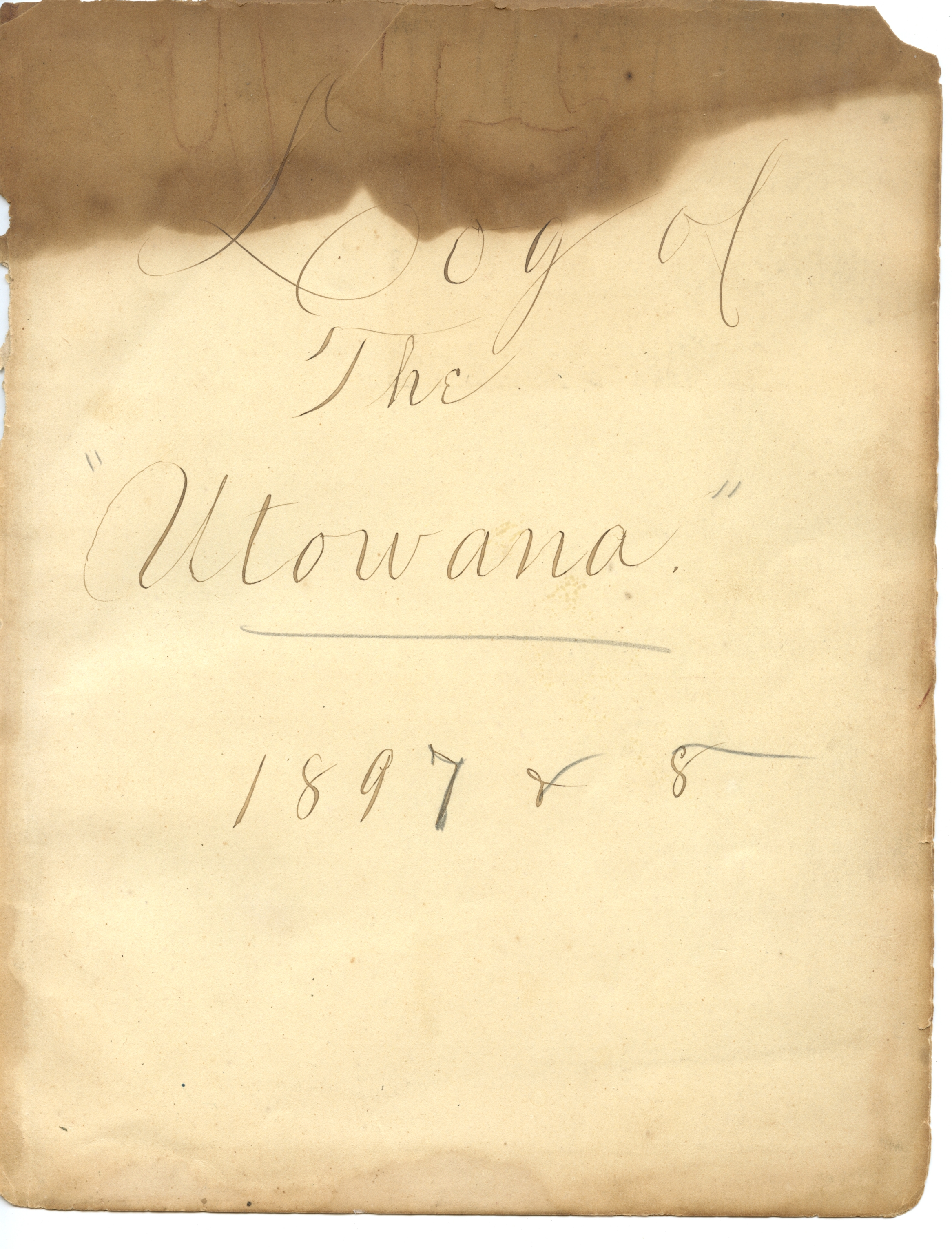 Logbook of the USS Utowana 1898-1998